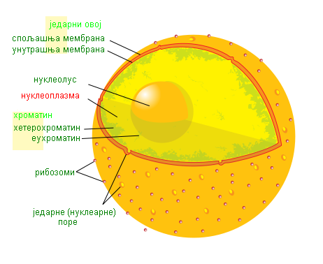 a comprensive diagram of a human cell nucleoplasm, names in serbian